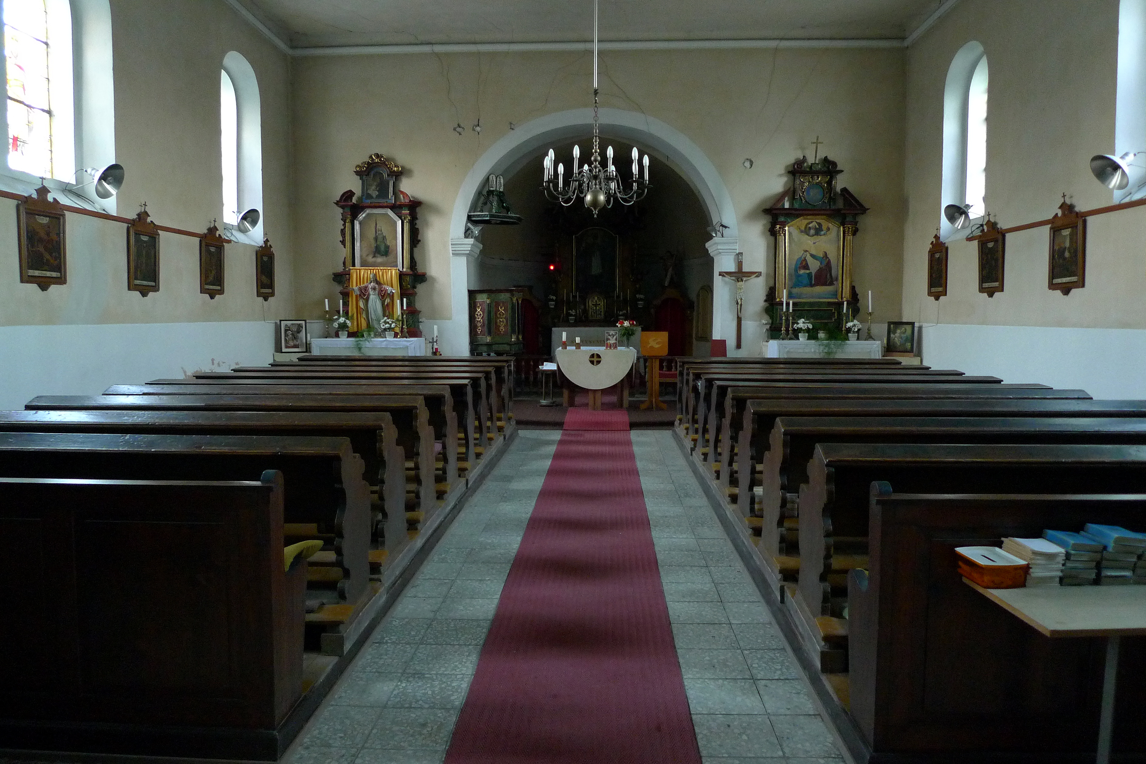 Church of Saint Adalbert (Přerov nad Labem, Czech Republic)